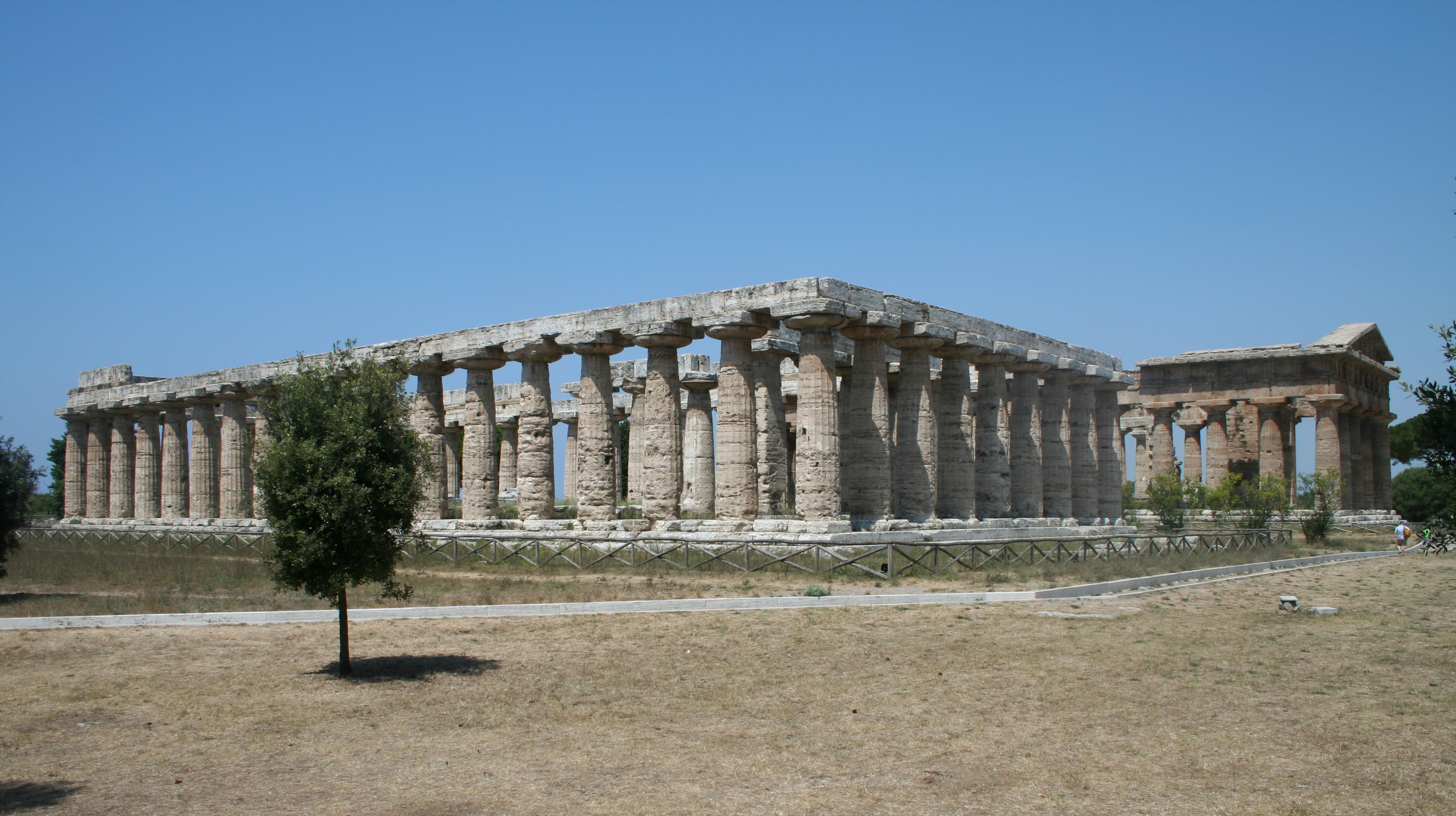 Paestum, Italy - Temple of Hera and Temple of Poseidon